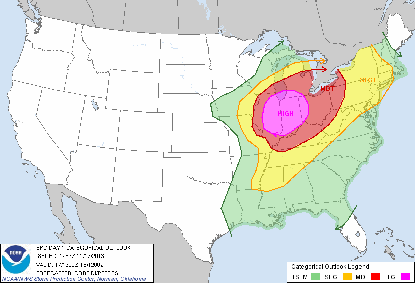 High risk severe weather outlook issued by the Storm Prediction Center for November 17, 2013